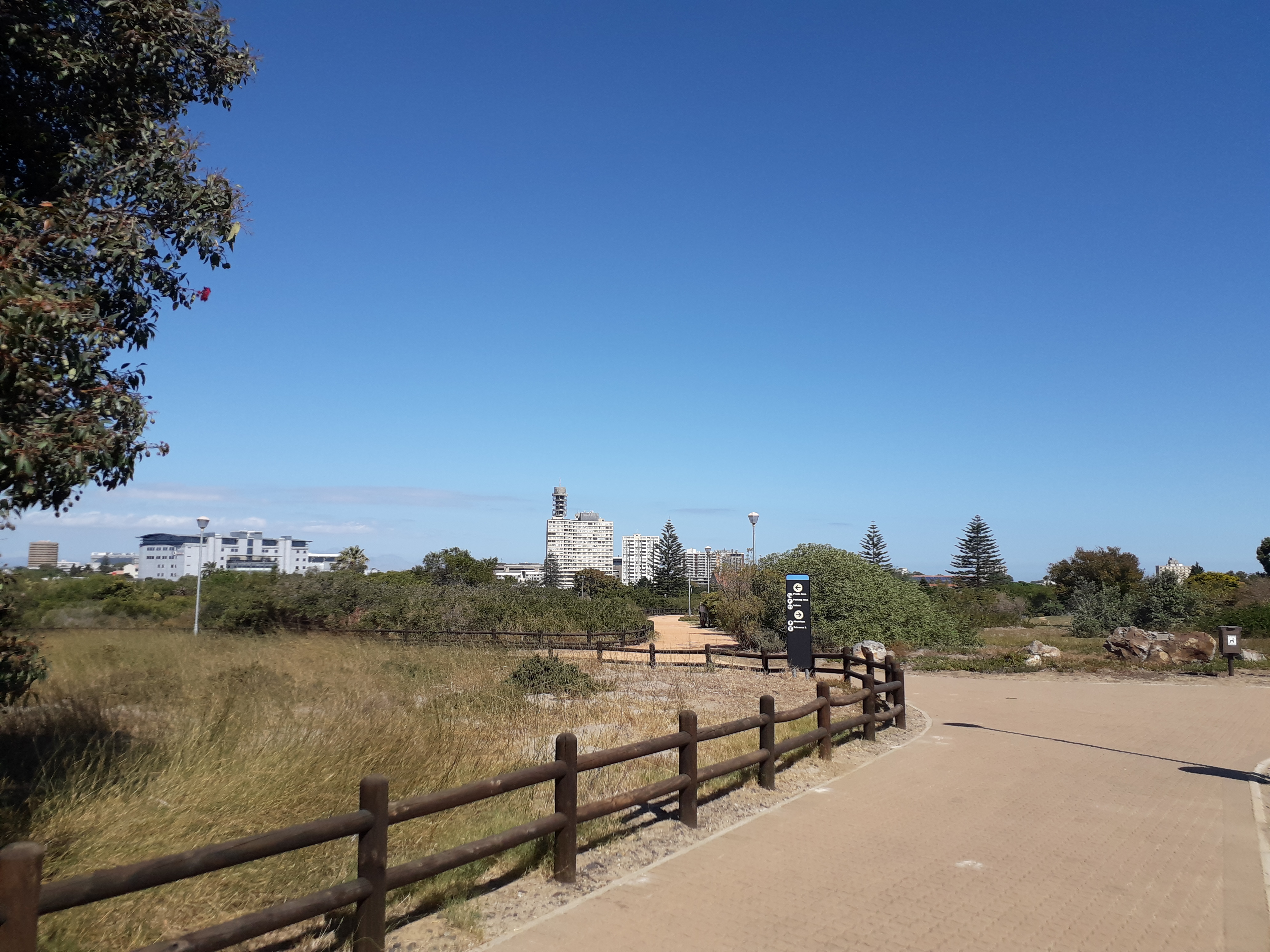 View of the Bellville Central Business District from the Jack Muller & Danie Uys Park